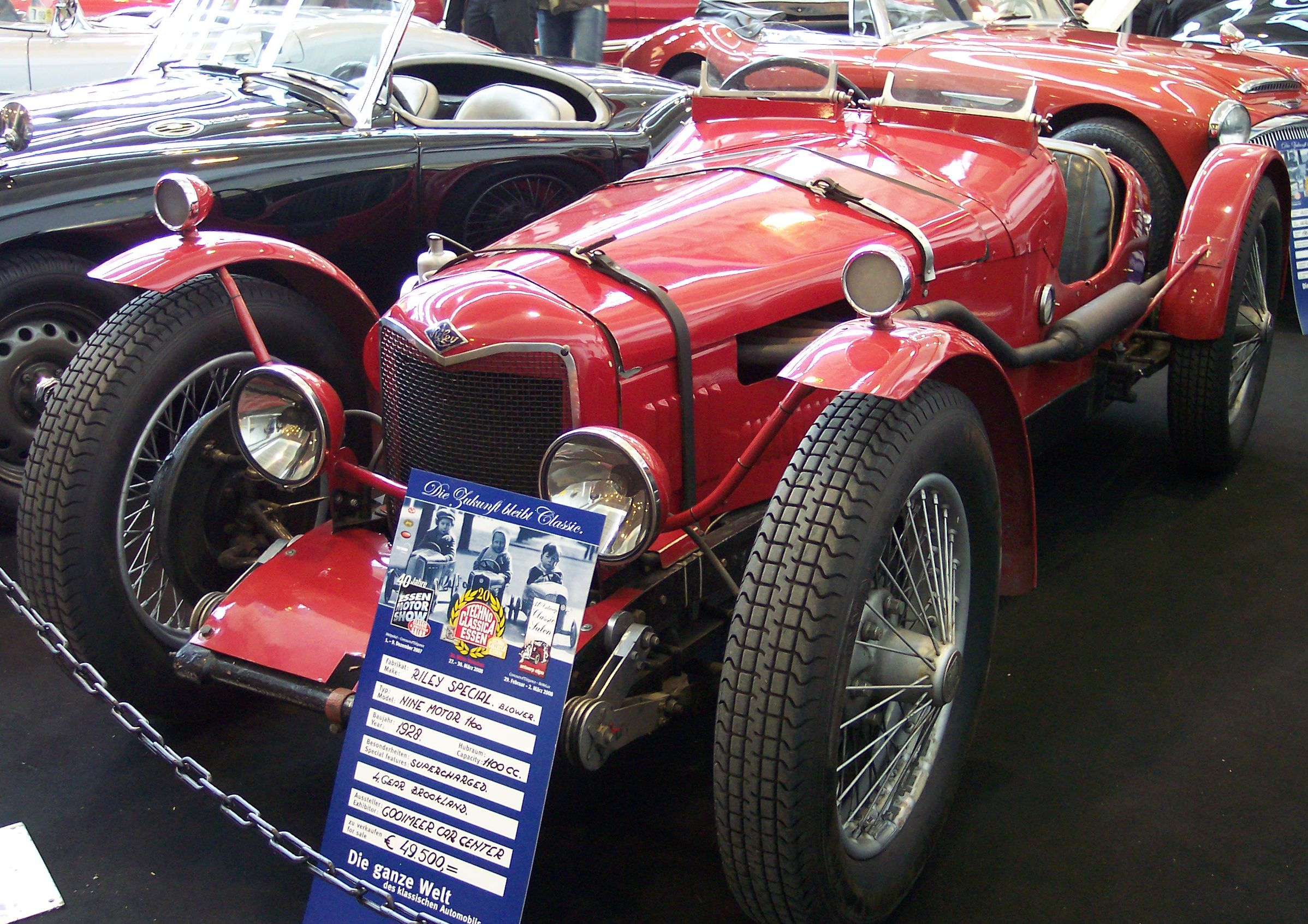 Riley Nine Motor 1100 Special Blower